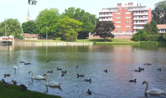 Avon River in Stratford, Ontario My own photo